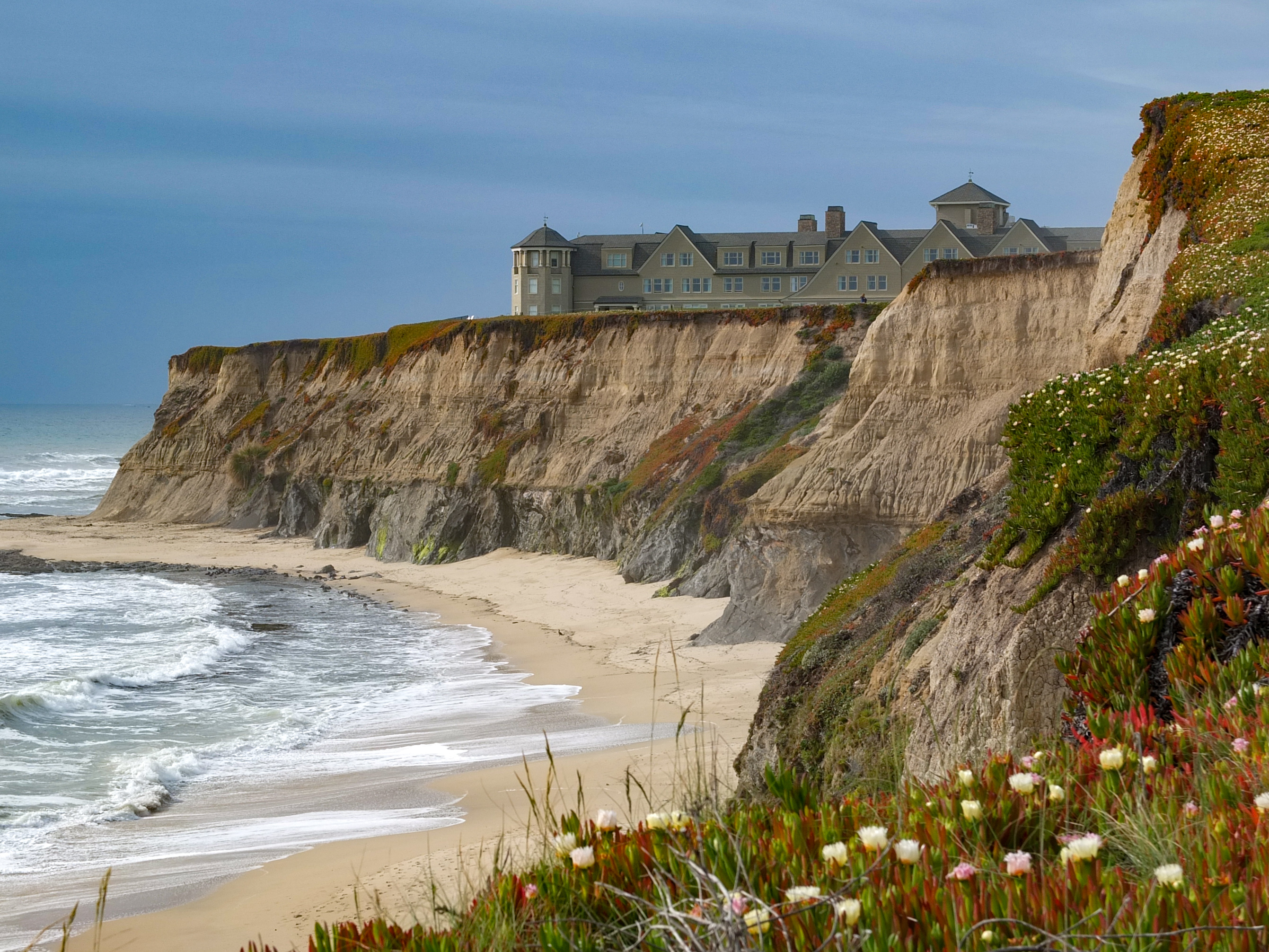 Beach and cliff at Ritz-Carlton, Half Moon Bay Half Moon Bay